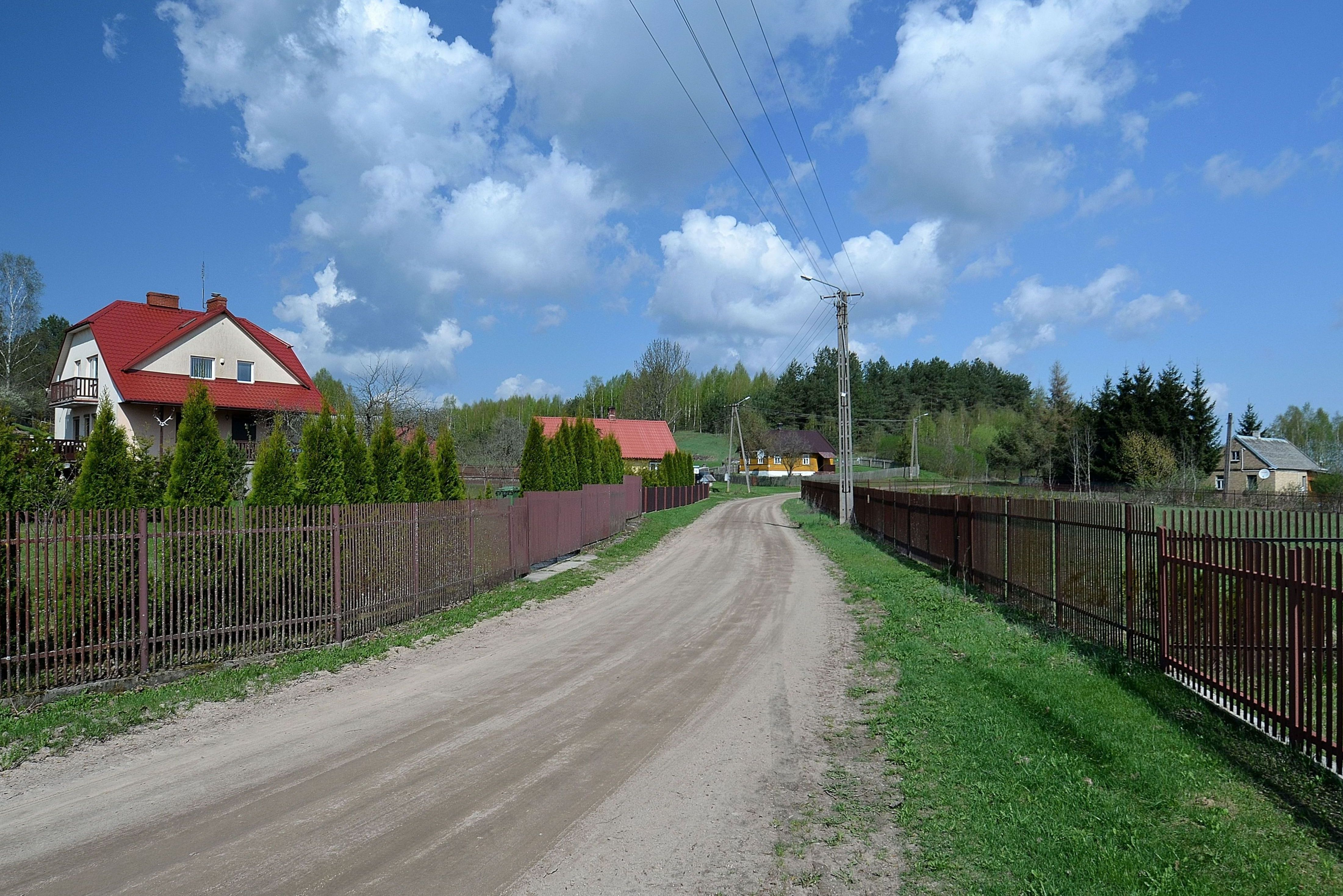 Gobiaty. Gródek Commune